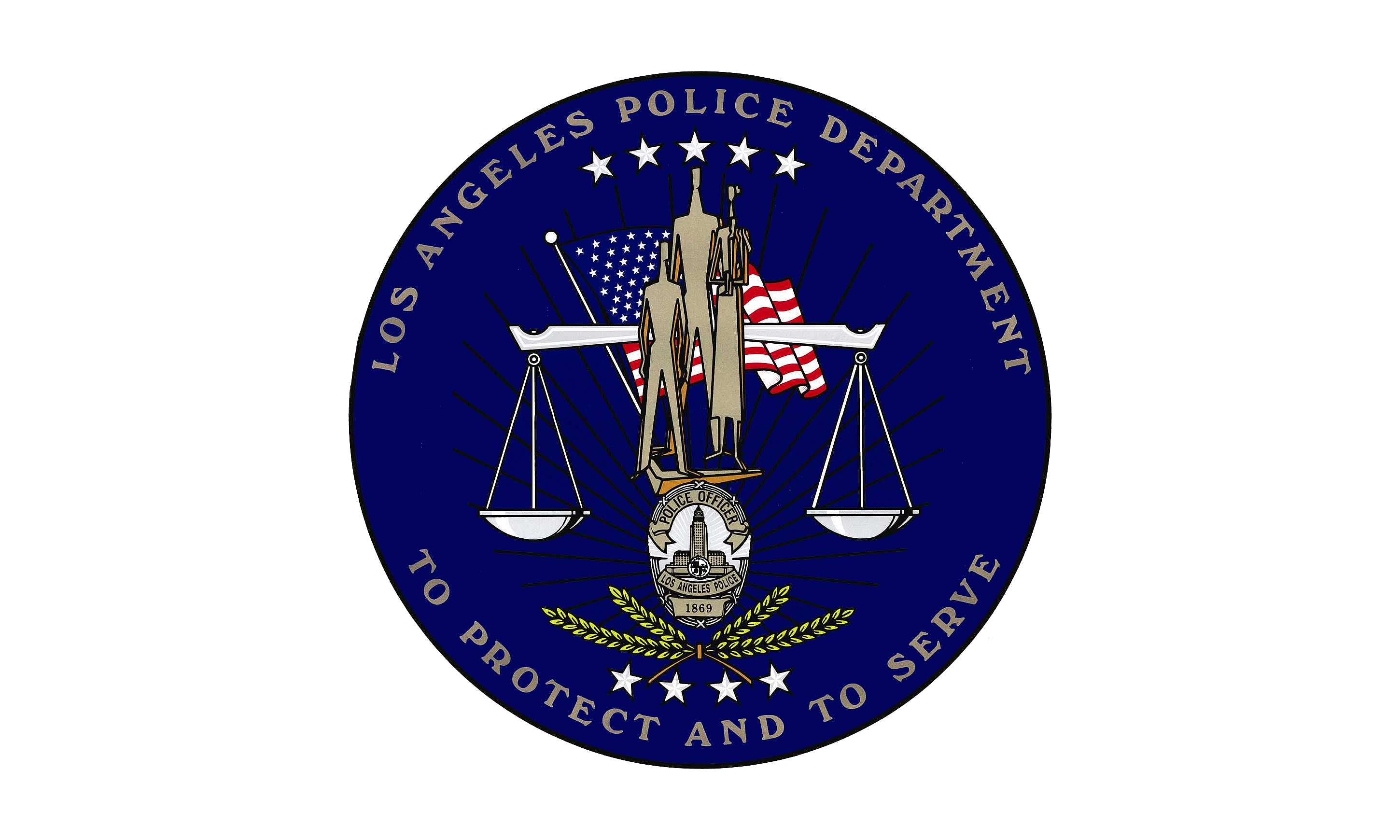 Flag of the Los Angeles Police Department